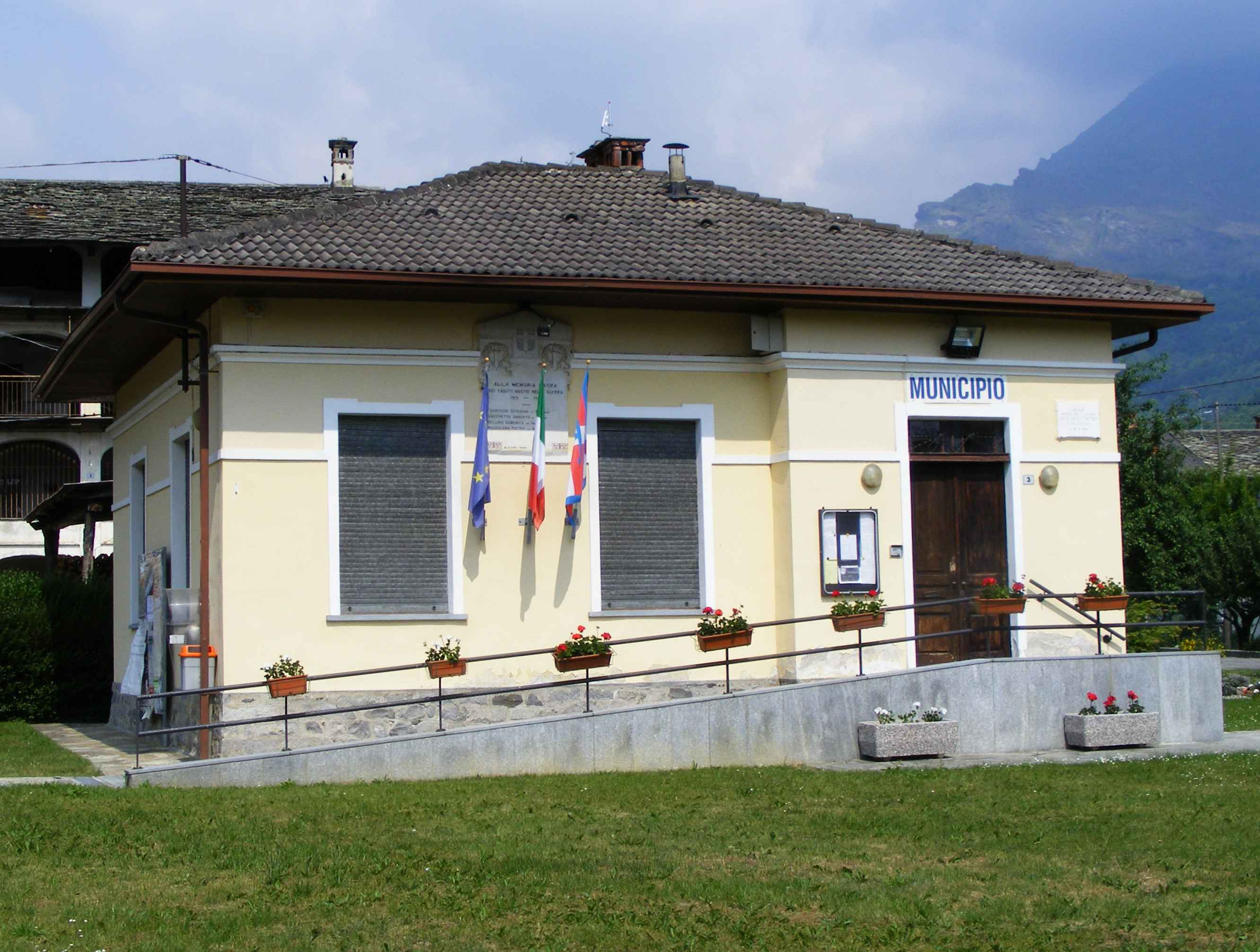 Trausella (TO, Italy): town hall